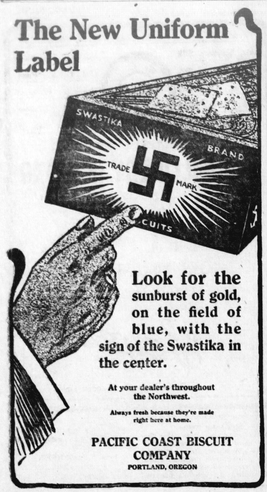 An advertisement for Snowflake Sodas by the Pacific Coast Biscuit Company that appeared in the East Oregonian (July 9, 1915; p. 6) featuring the "new uniform label." Pacific Coast had recently lost a trademark lawsuit to Nabisco and had then changed its logo from a red swastika to a "sunburst of gold, on the field of blue, with the sign of the swastika in the center."